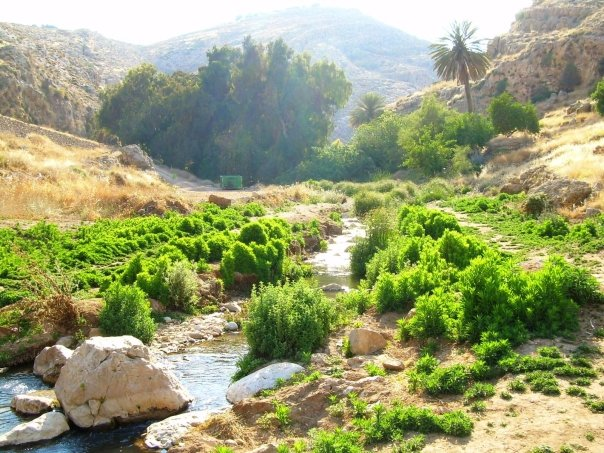 Nahal Prat, a nature reserve and park in the Desert of Judea, Israel